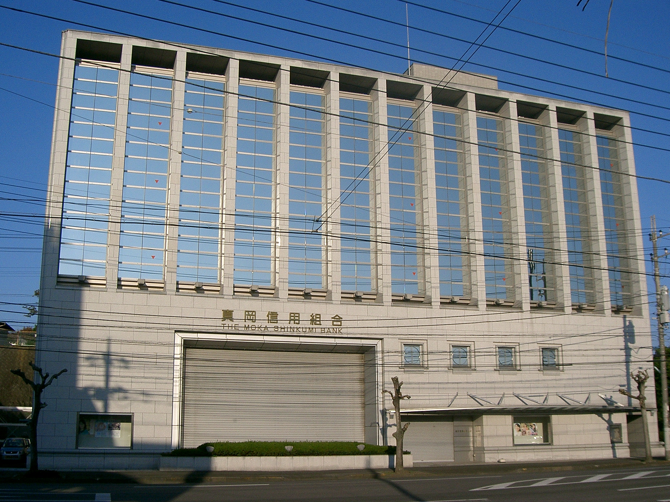 Head office of Moka Credit Union